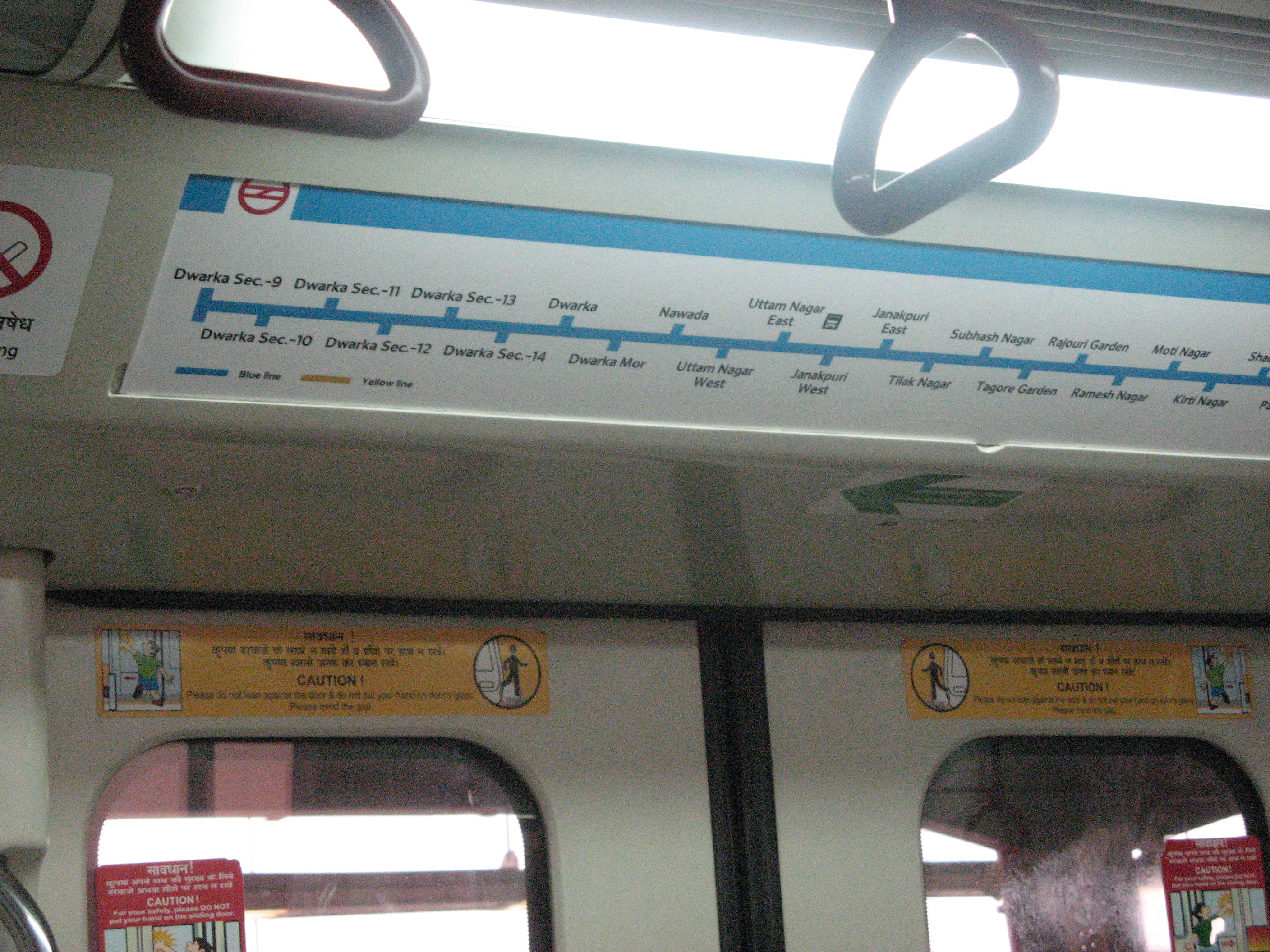 Delhi Metro Train inside showing the route map